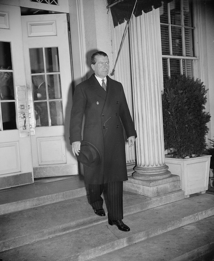 Polish Ambassador thanks president for U.S. aid. Washington, D.C., Nov. 16. Count Jerzy Potocki, Ambassador of the government of defeated Poland, leaving the White House today after thanking President Roosevelt for the assistance America extended to his country.